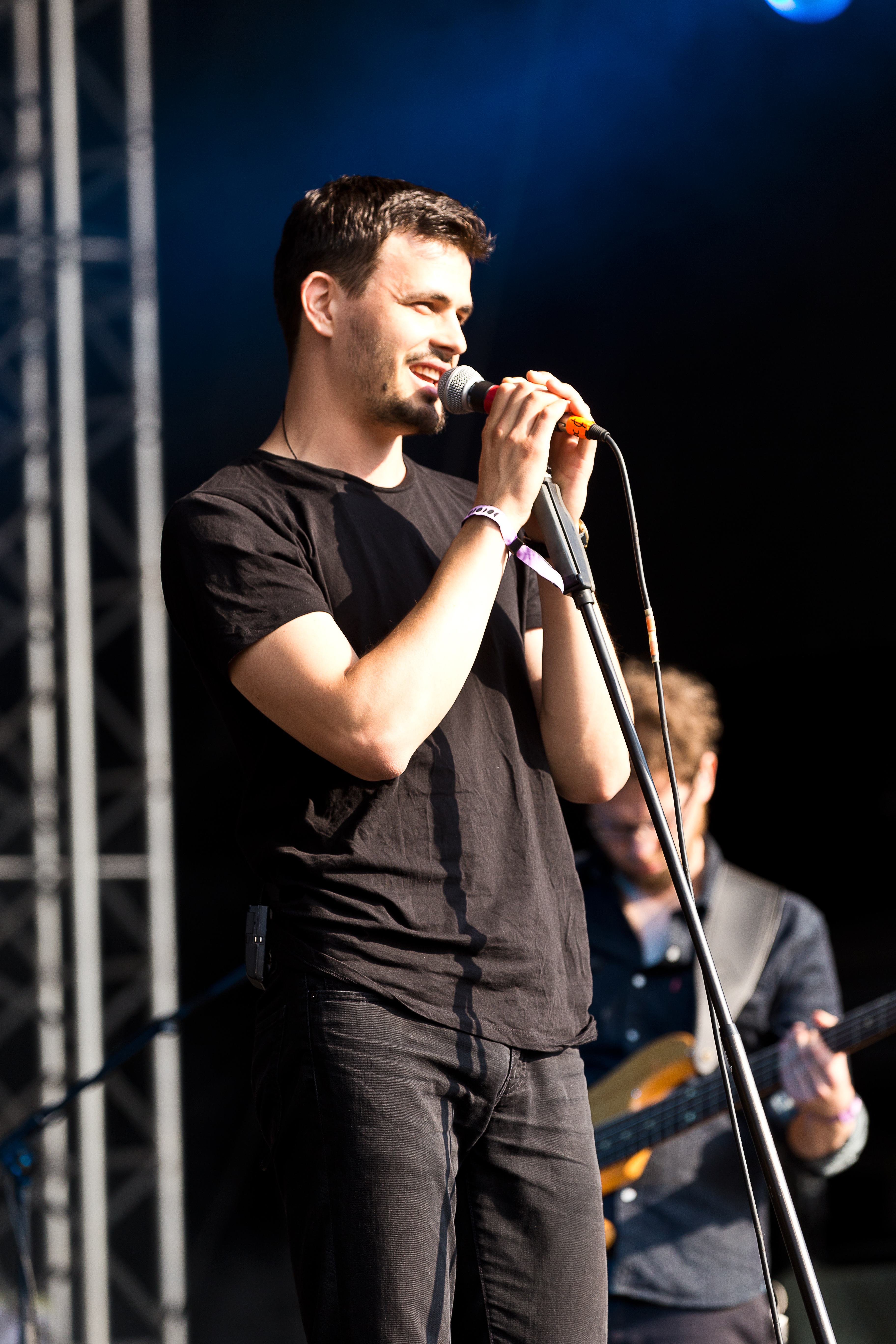 The German pop duo Malky with band at the Melt! 2015 in Ferropolis/Germany.